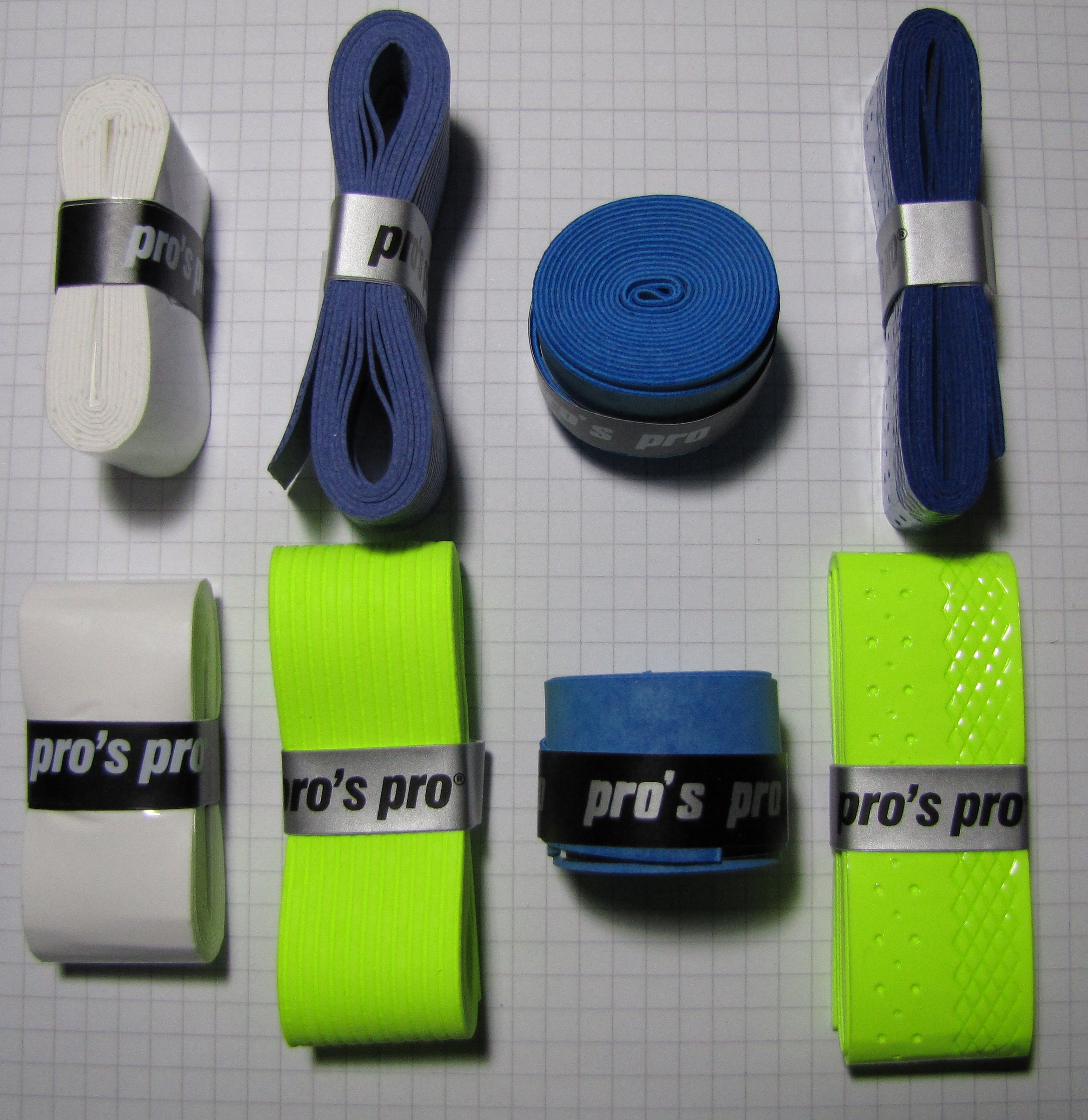 Different overgrips. On top standing, below laying respectively the same model.